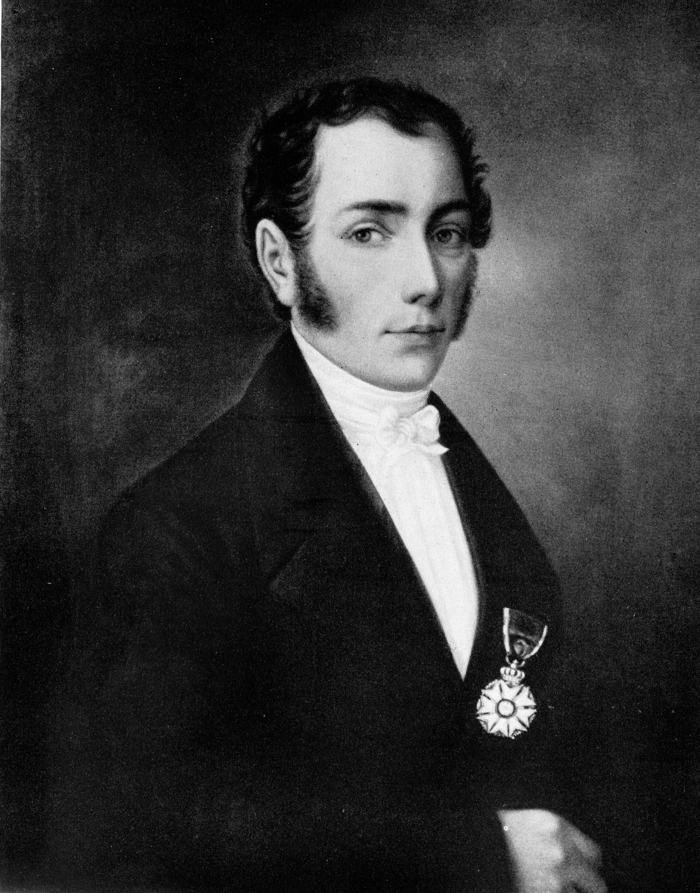 Joseph von Fraunhofer (1787-1826); 73:59 cm